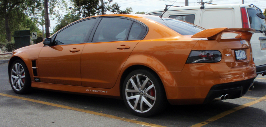 2006 HSV Clubsport (E Series MY07) R8 sedan. Photographed in Victoria, Australia.